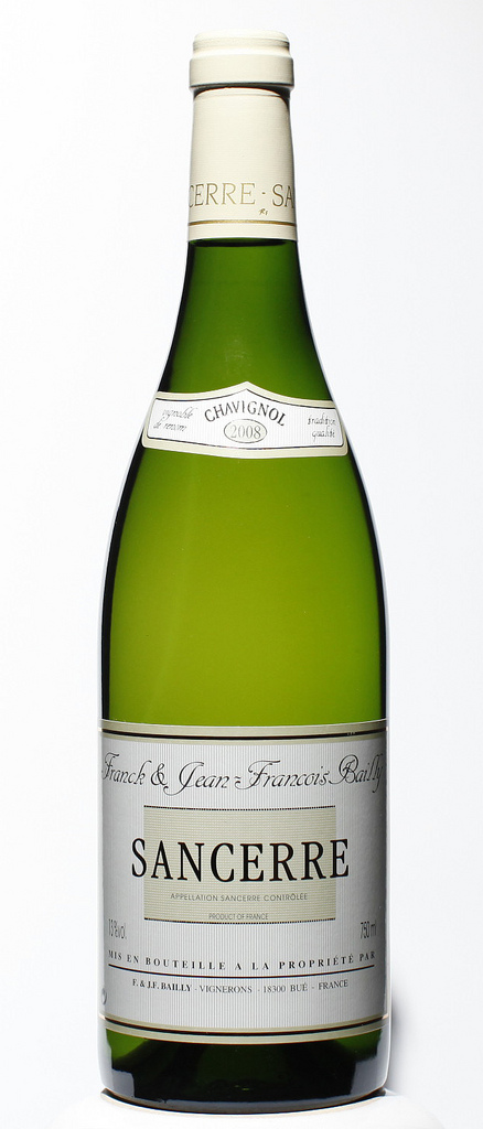 Sancerre Chavignol 2008 wine